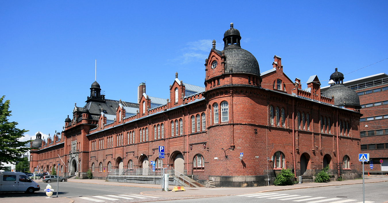 Tulli- ja pakkahuone (Customs and warehouse), Katajanokka, Helsinki. Built in 1900. Architect: Gustaf Nyström.